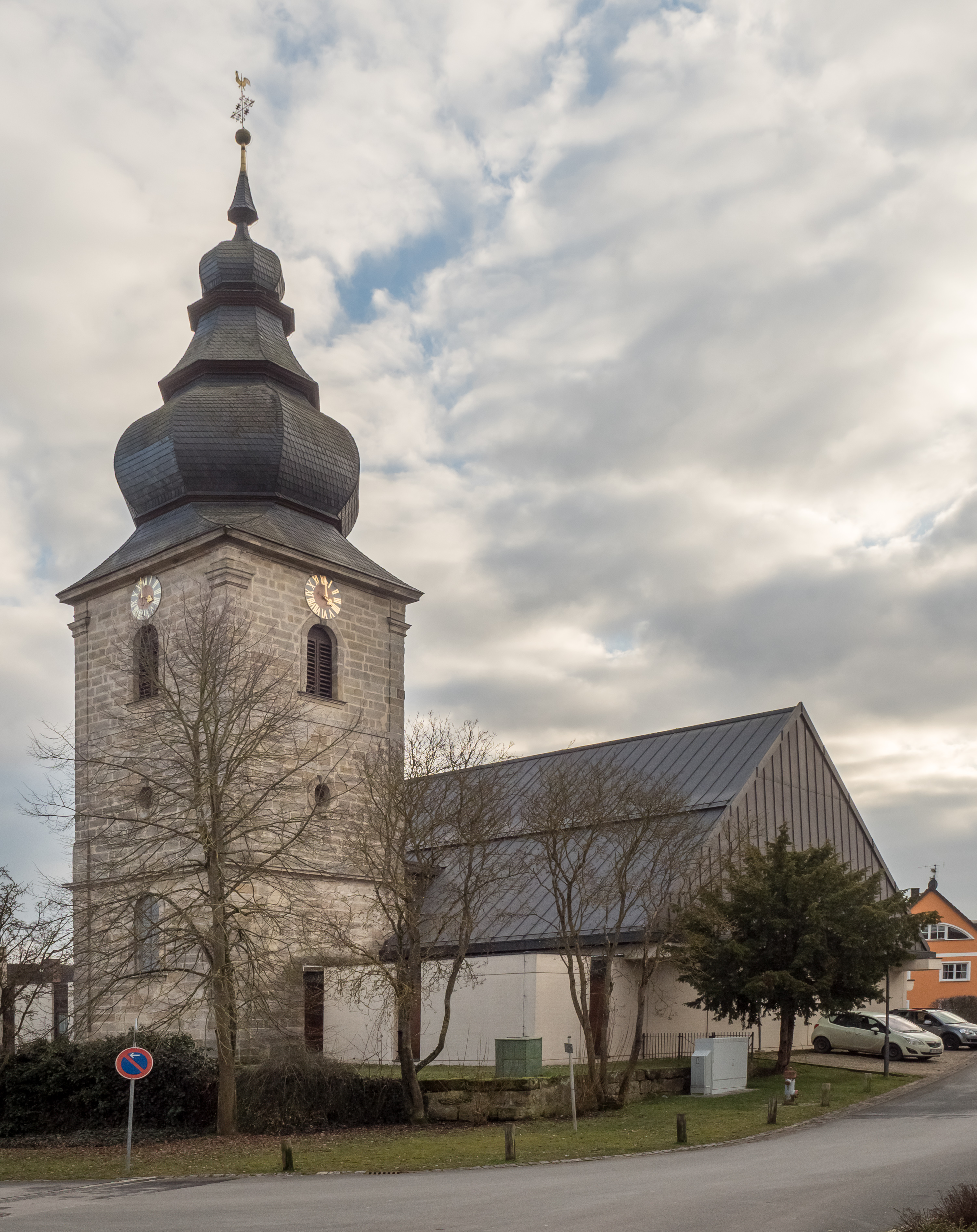 Catholic Filial Church St. Veit in Röbersdorf